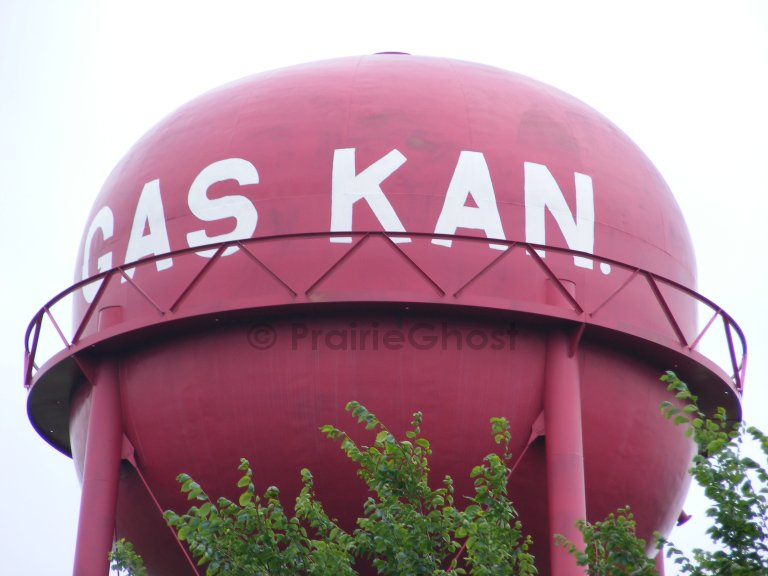 The "Gas Kan" water tower in Gas, Kansas.